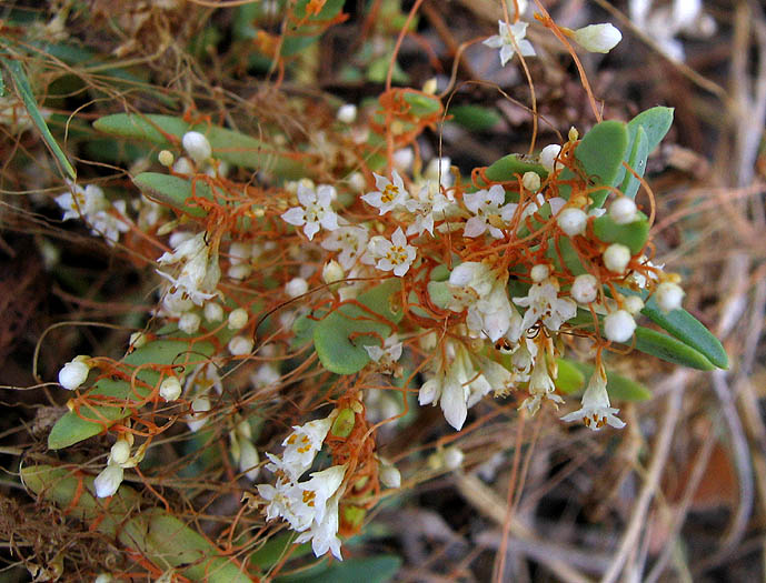 Cuscuta pacifica var. pacifica, Malibu Lagoon State Beach, CA, USA (salt marsh), September 2006 This image or media file contains material based on a work of a National Park Service employee, created as part of that person's official duties. As a work of the U.S. federal government, such work is in the public domain in the United States. See the NPS website and NPS copyright policy for more information.